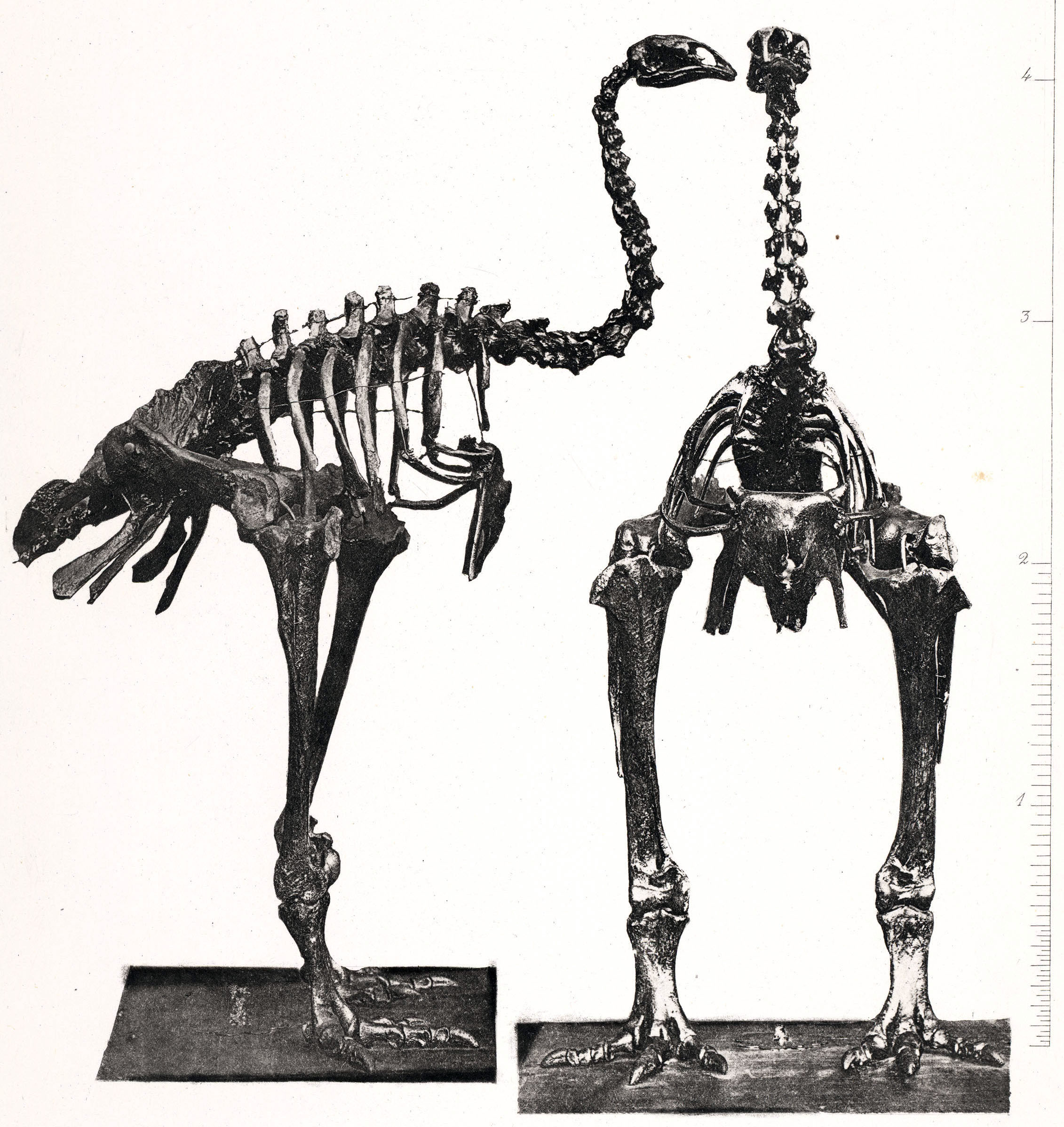 Dinornis gravis (now Euryapteryx gravis).